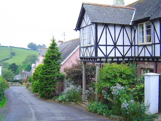 Coffinswell